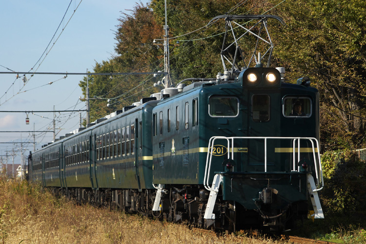 Chichibu Railway Class DeKi 200 electric locomotive DeKi 201 hauling the empty stock and steam locomotive for the SL Paleo Express on the Chichibu Main Line